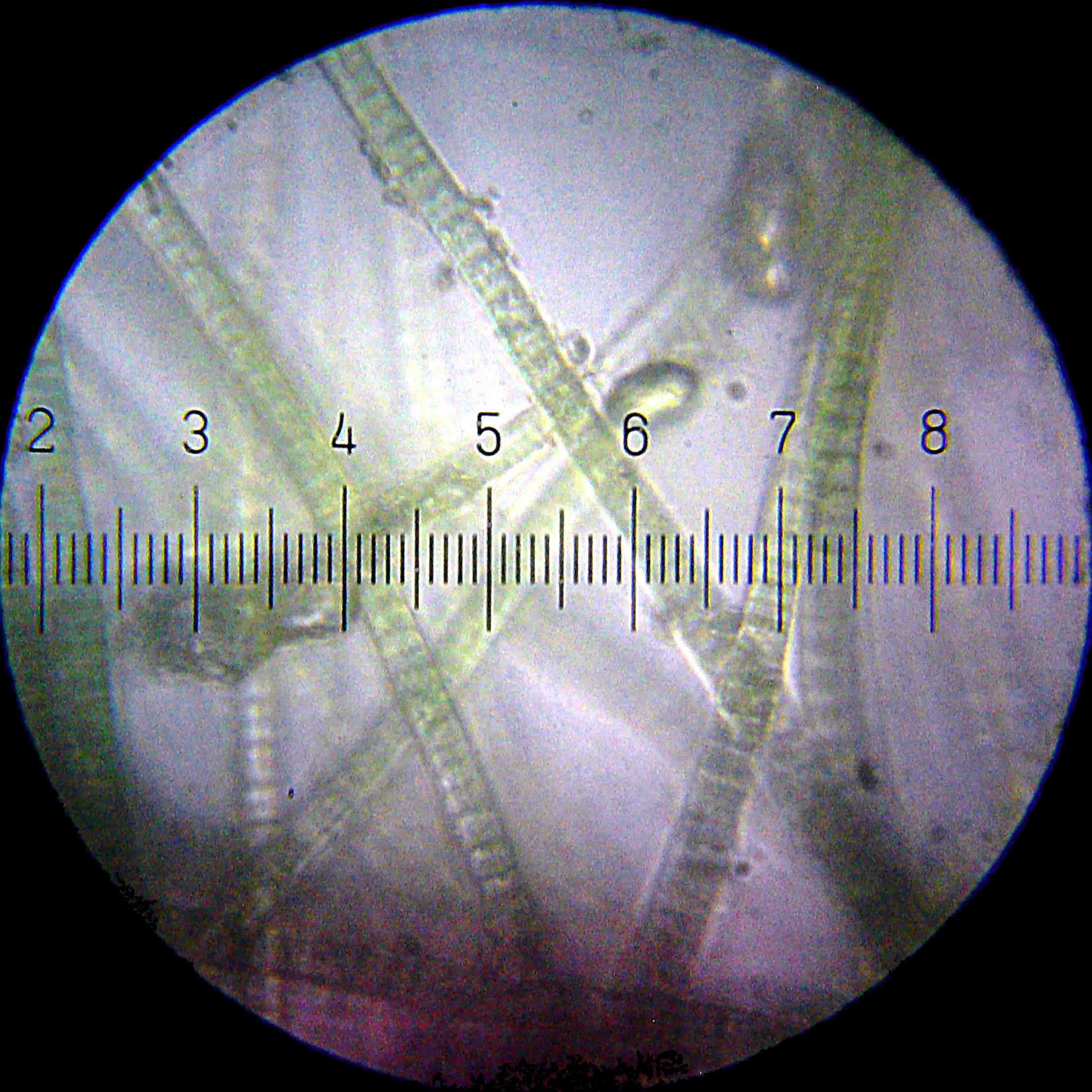 Cyanobacteria